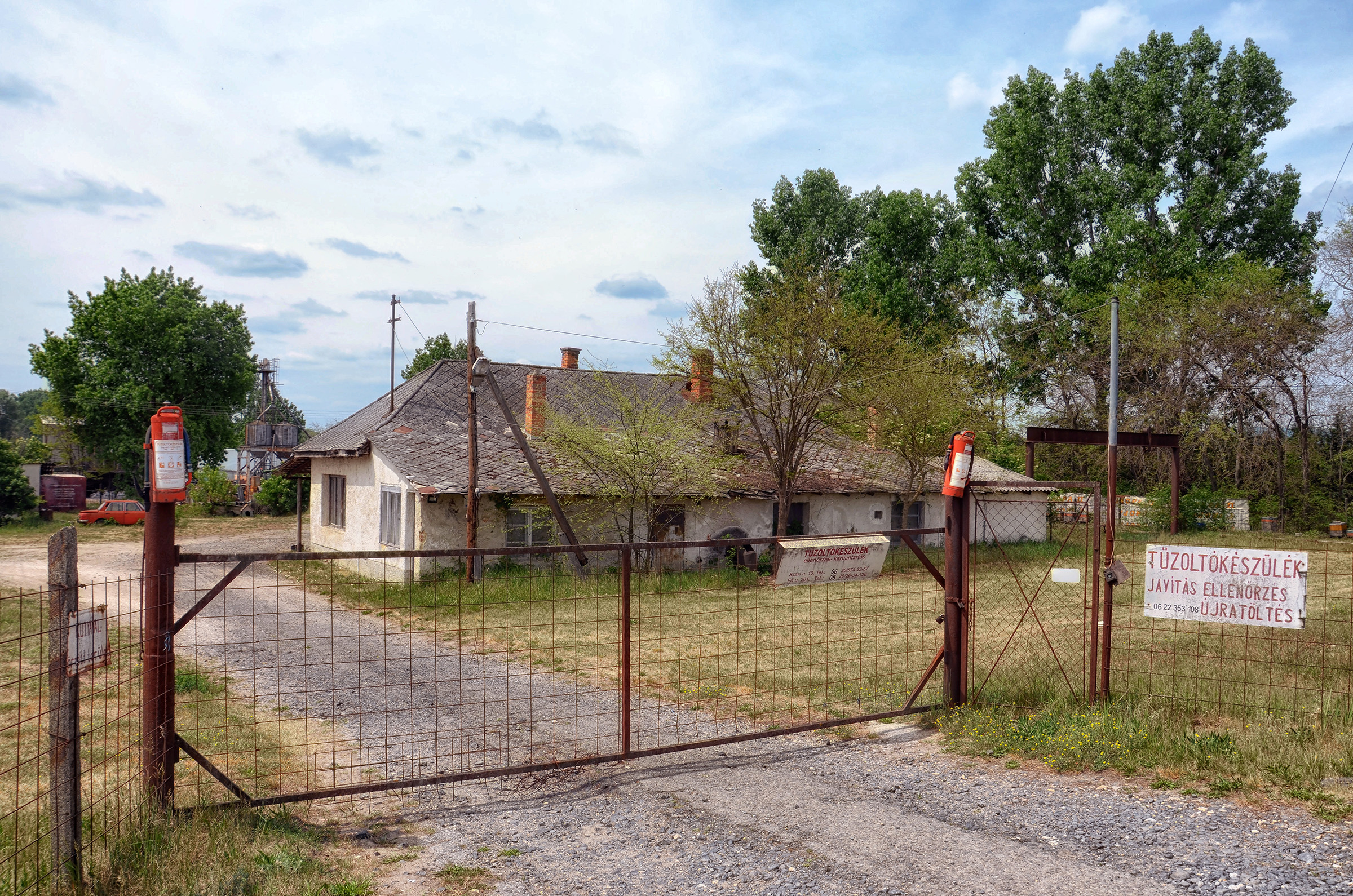 One of the former office buildings of the socialist agricultural cooperative in Felcsút, Hungary